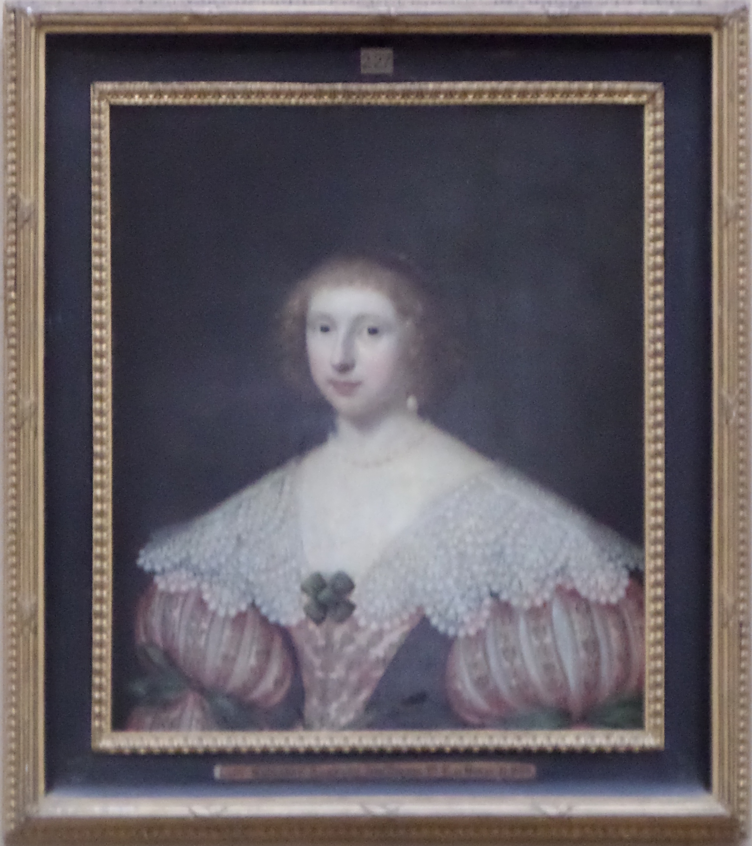 Painting, possibly a copy, displayed in Dunrobin Castle in Sutherland, Scotland. Addendum: The frame inscription on the "Unknown Lady" is "Lady Margaret Stewart ... died 1639" indicating Margaret Howard, Countess of Nottingham. This was accepted and published by Alexander J. Finberg, 'A CHRONOLOGICAL LIST OF PORTRAITS BY CORNELIUS JOHNSON, OR JONSON', The Volume of the Walpole Society Vol. 10 (1921-1922), p. 17. - with thanks to User:Unoquha